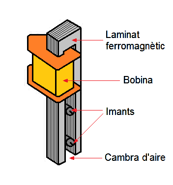 Drawing of the Transducer use in a Spring Reverb Tank